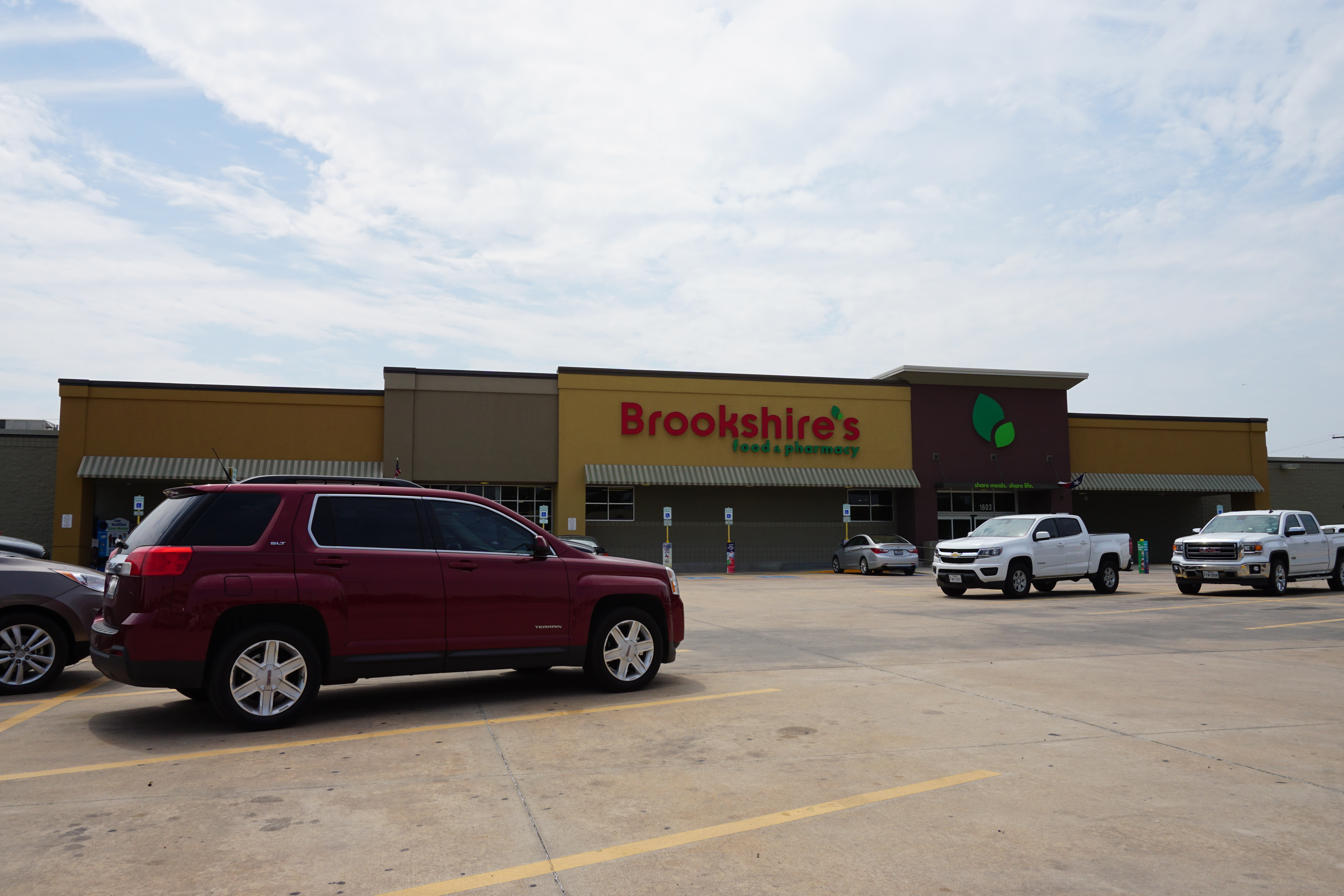 Brookshire's in Commerce, Texas (United States).